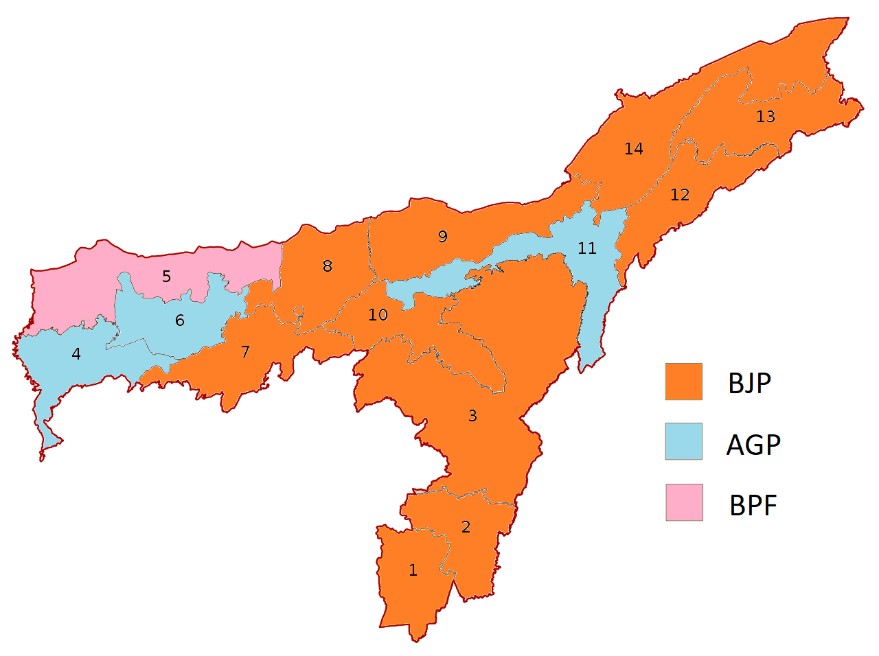 Seat Sharing among various allies of BJP colour coded